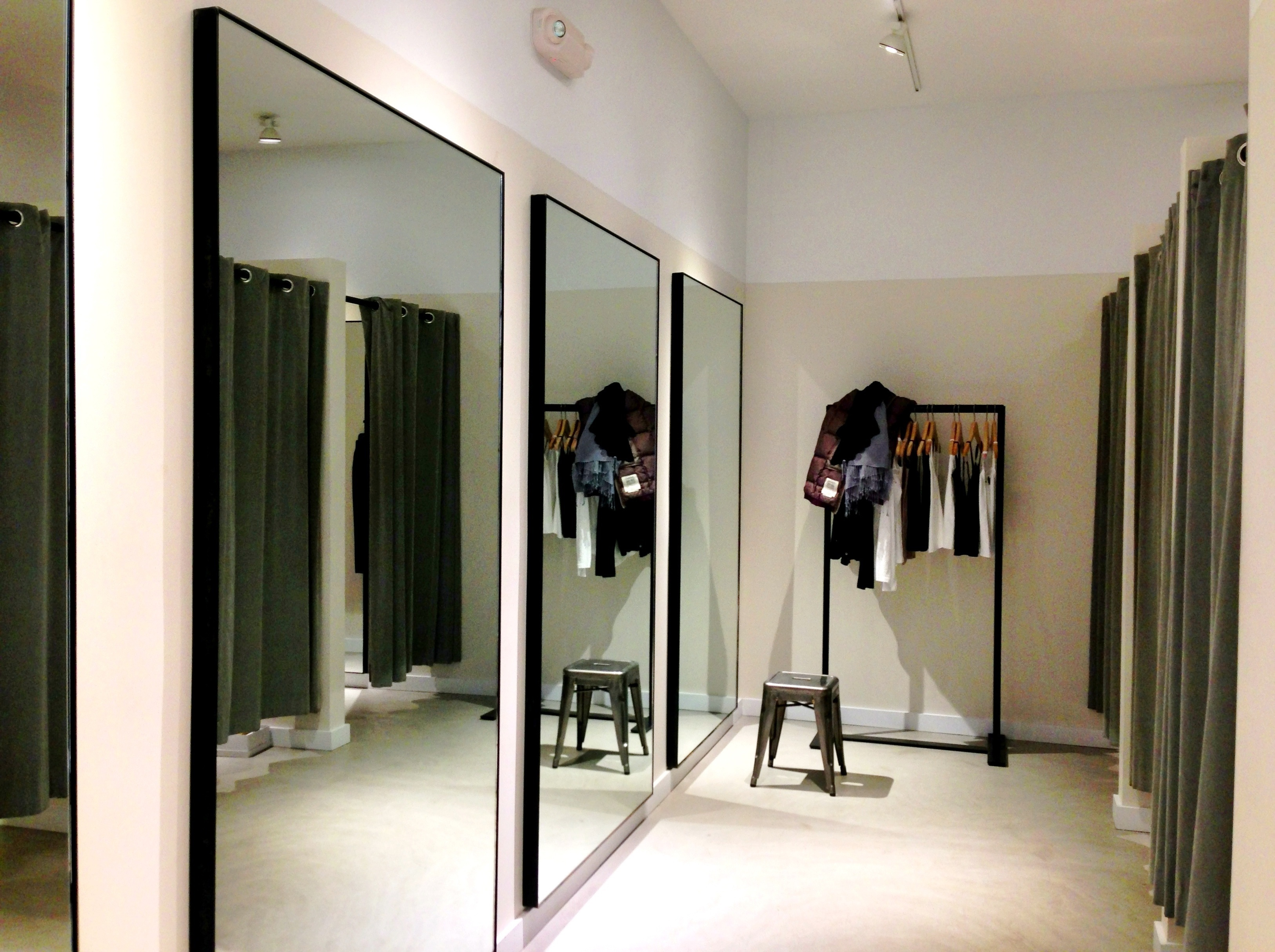 Theory (clothing retailer) Dressing Room, Westport, CT 06880, USA - Mar 2013